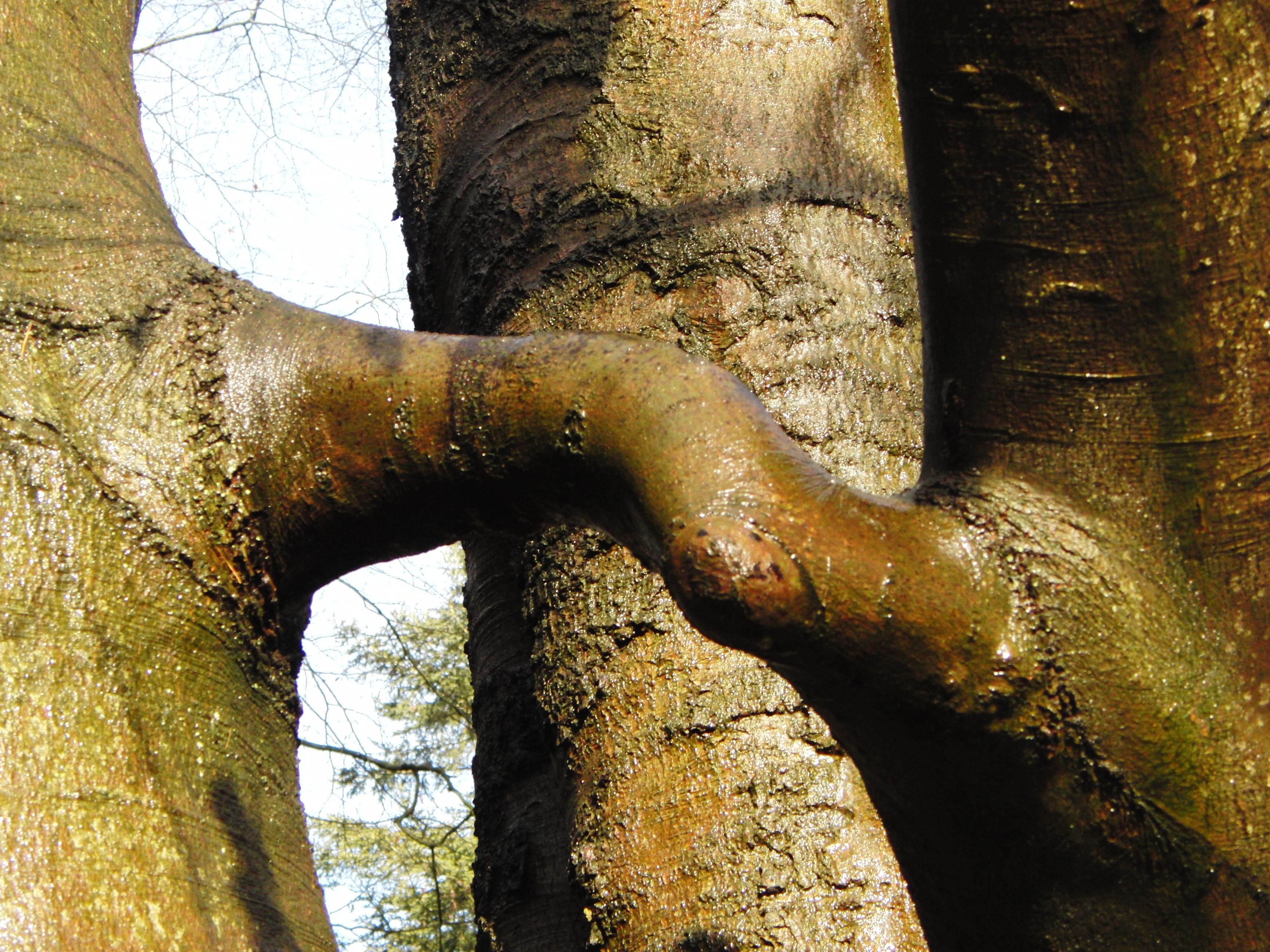 Inosculation